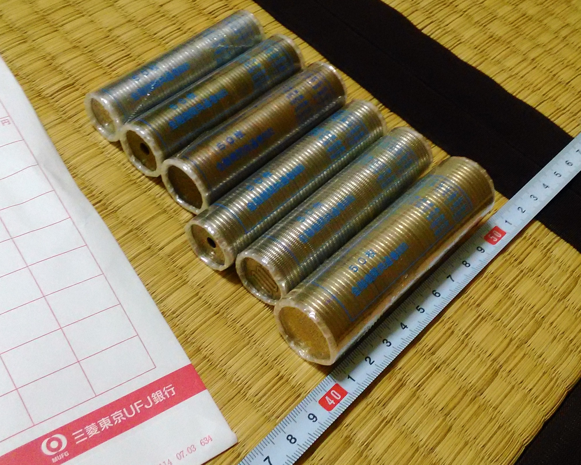 Japanese wrapped coins. In Japan, a coin roll contains 50 coins irrespective of denomination (¥500, ¥100, ¥50, ¥10, ¥5 and ¥1.) These rolls are dispensed by Bank of Tokyo-Mitsubishi UFJ.